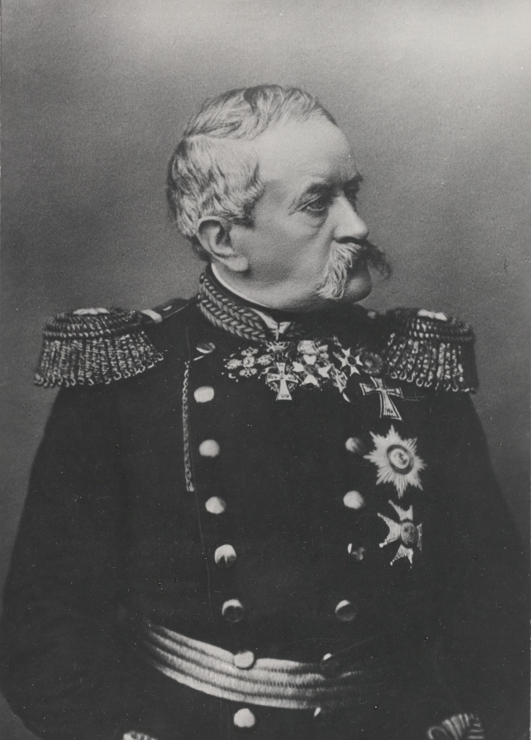 Paul Martin von Bülow (1795-1877), Danish Major General